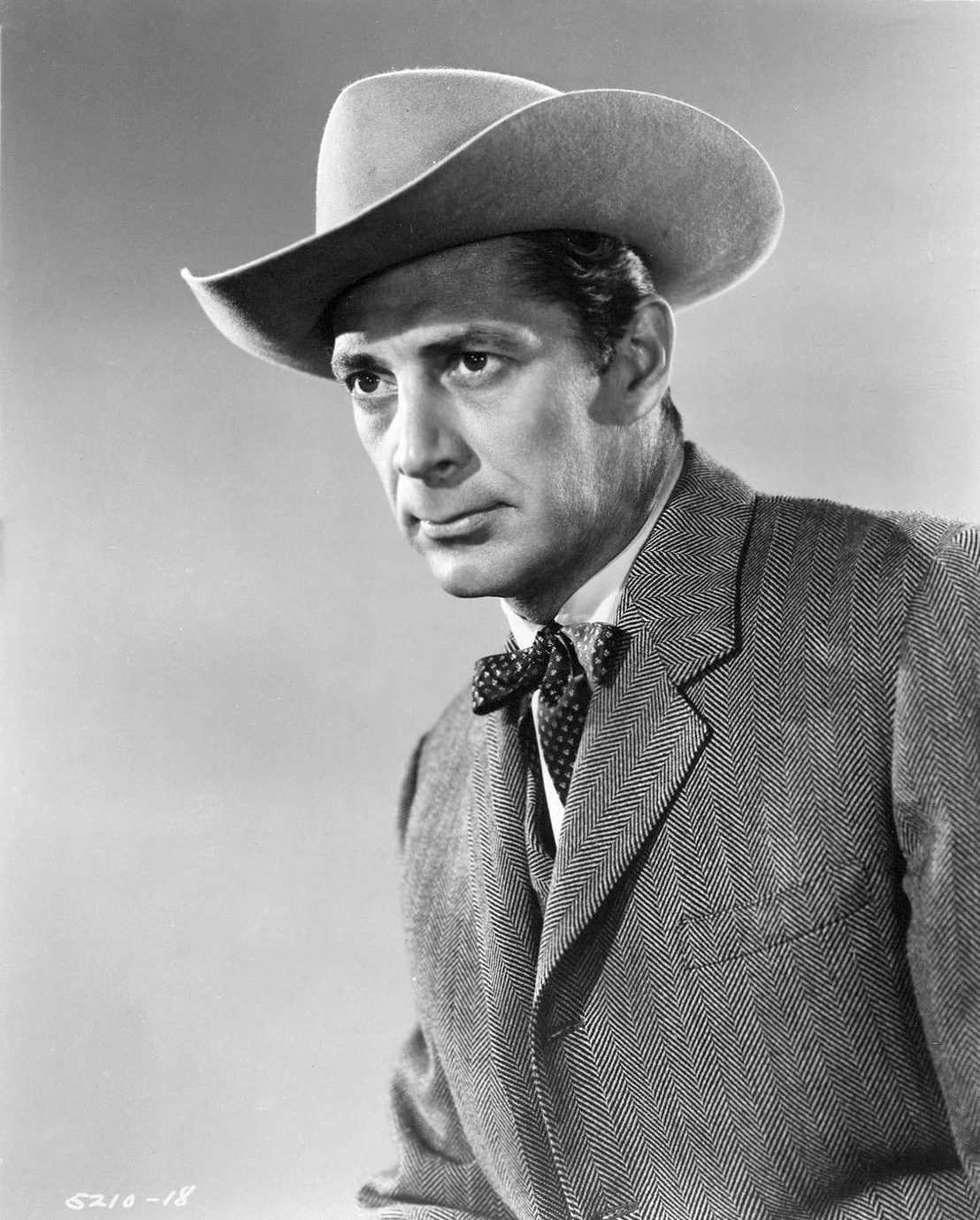 Kansas Pacific 1953 movie publicity still. Reed Hadley